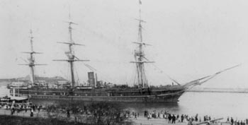 Dutch Atjeh-class unportected cruiser De Ruyter